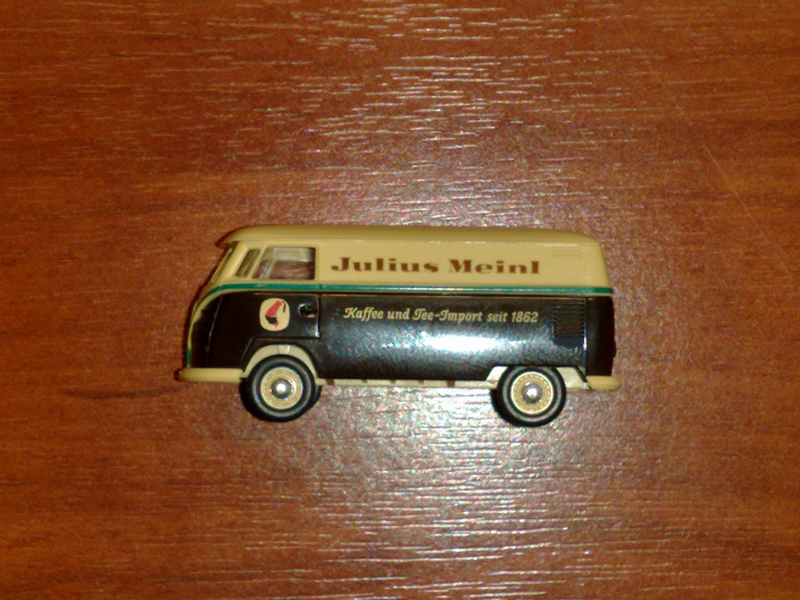 meinl truck